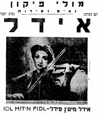 An advertisement for the Hebrew-dubbed Yiddle with His Fiddle, published in the British Mandate of Palestine. Public Domain under Israeli law, as all pictures made before 2008 are subject to copyright only for 51 years after being published.